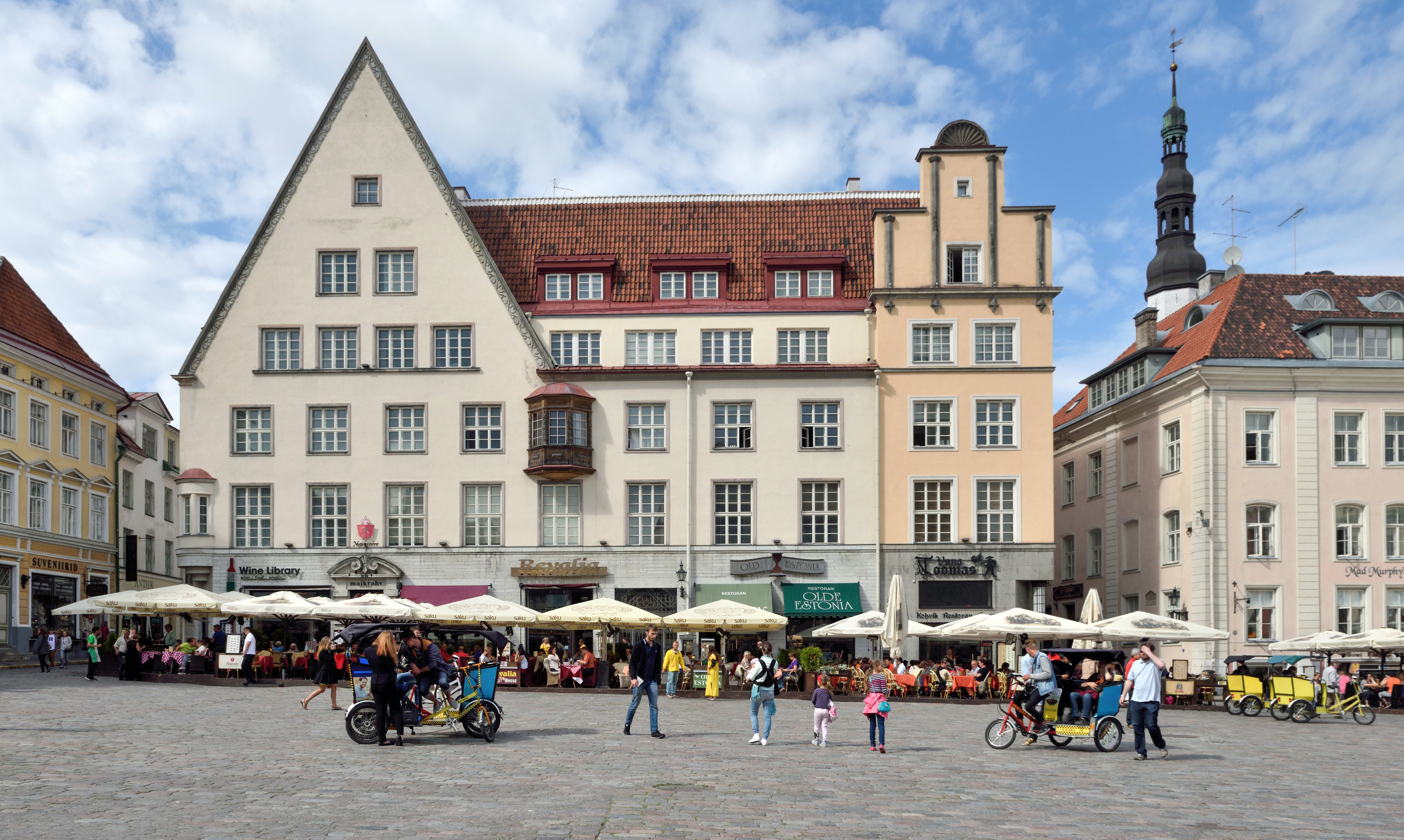 Northside of Raekoja Plats (Town hall square) in Tallinn, Estonia.